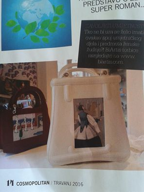 Cosmo HR